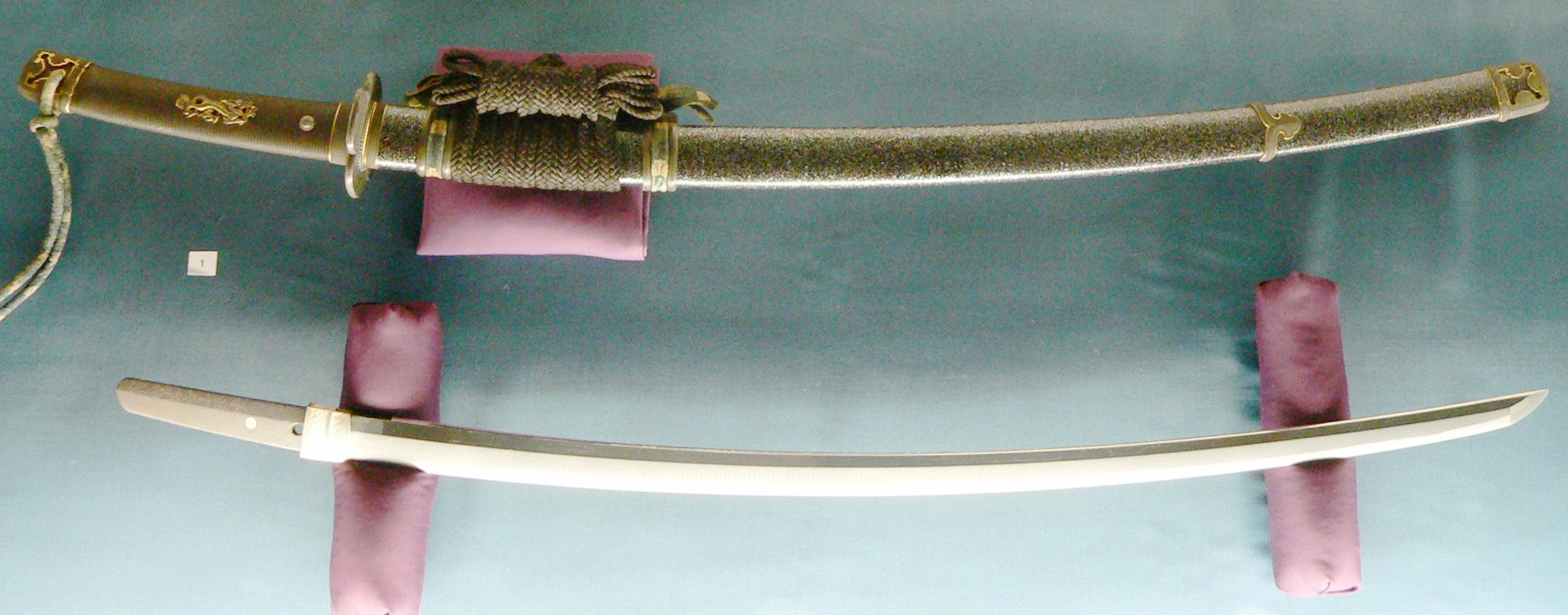 Tachi forged by Bizen Osafune Sukesada, 12th year of the Eishô era, a day in February (1515, Muromachi). Saya in aogai-nashiji laquer, gold decorations. Mounting from 1907, last polish in 1987. Gallery Dutta Geneve